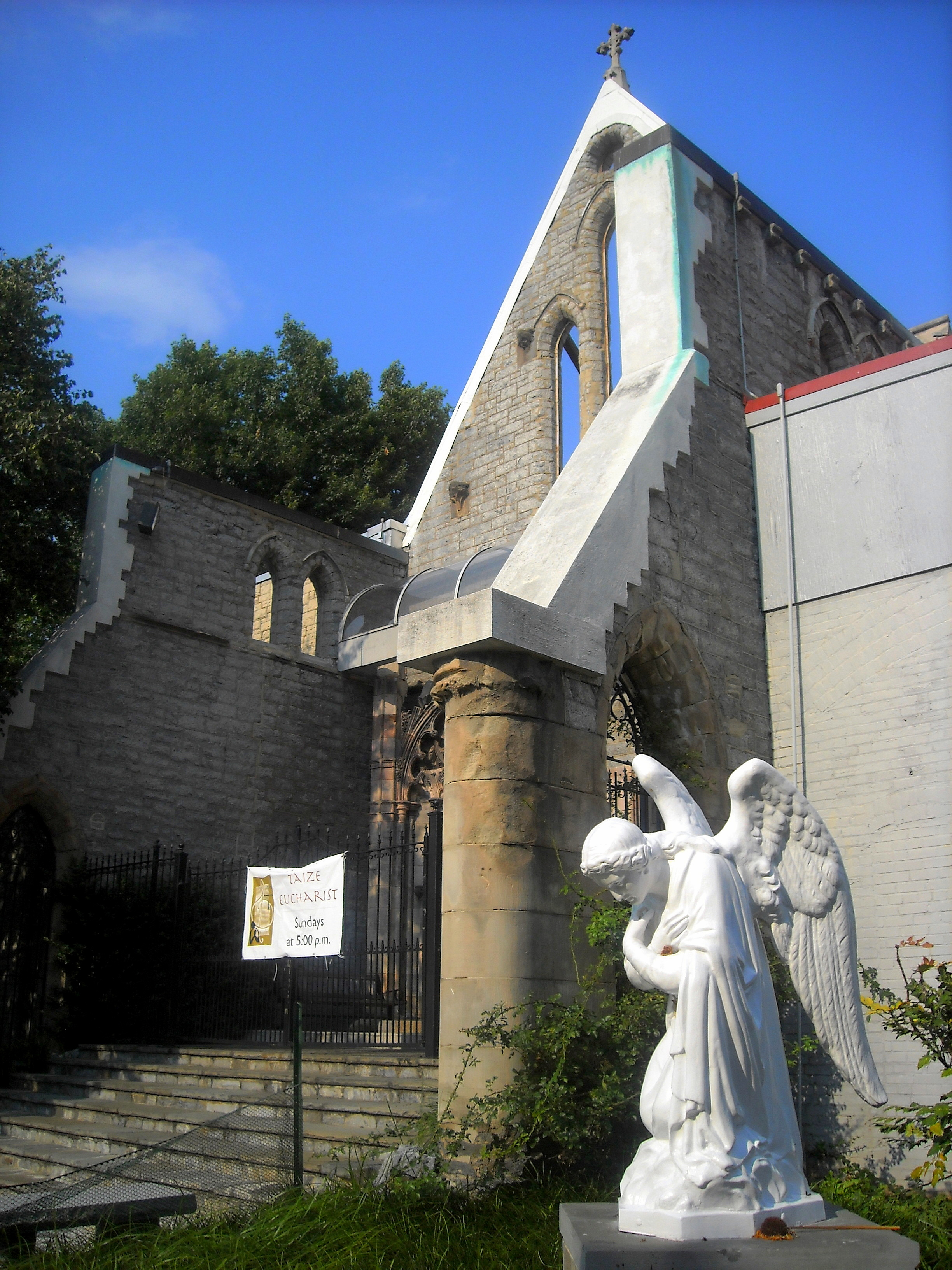 St. Thomas' Parish located at 1772 Church Street, NW in the Dupont Circle neighborhood of Washington, D.C.